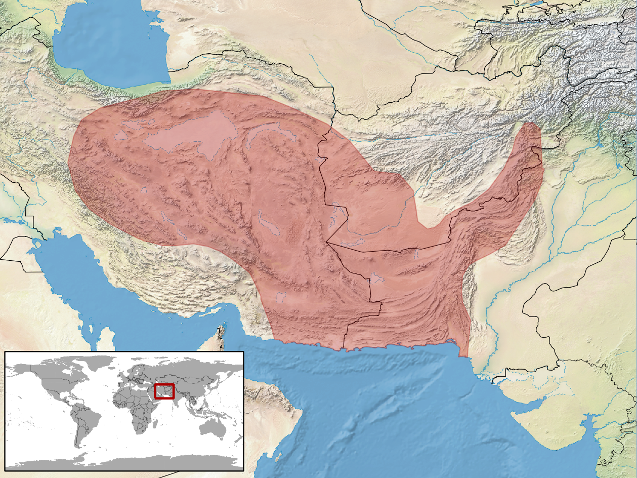 geographic distribution of Agamura persica (Native: Afghanistan; Iran, Islamic Republic of; Pakistan)